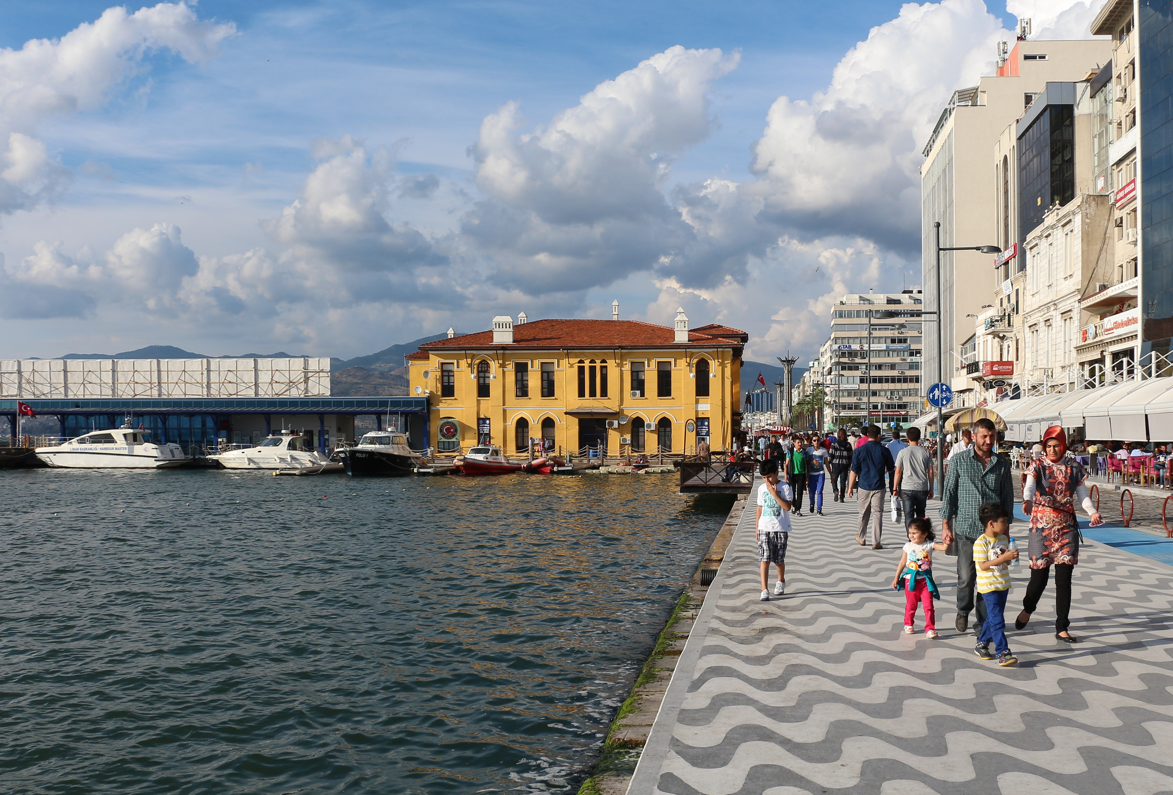 Kantar Karakolu (police station) on Pasaport Wharf, Izmir, Turkey